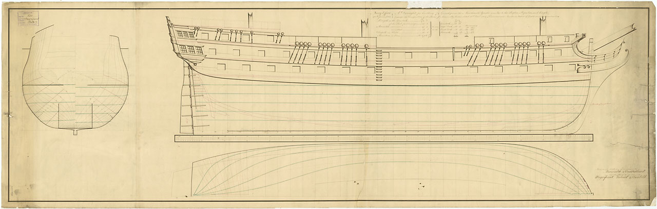 Plan showing the body plan, sheer lines, and longitudinal half-breadth for building 'Magnificent' (1806), 'Valiant' (1807), 'Elizabeth' (1807), 'Cumberland' (1807), and 'Venerable' (1808), all 74-gun Third Rate, two-deckers, similar to the 'Repulse' (1803), 'Sceptre' (1802), and 'Eagle' (1804).